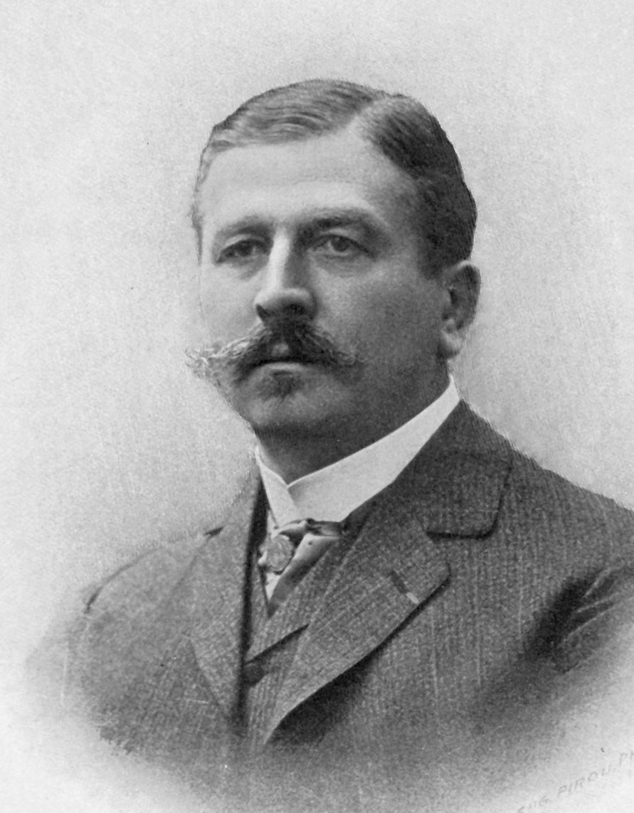 Joseph Jules François Félix Babinski (17 November 1857 – 29 October 1932)